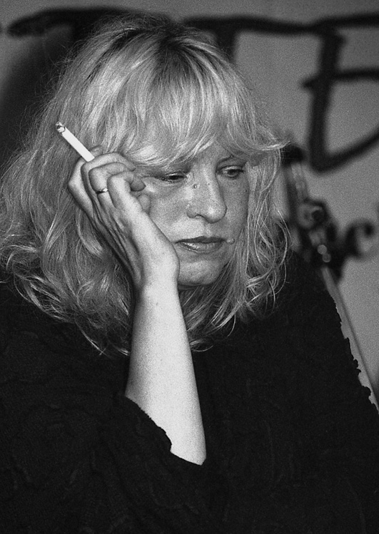 Tatiana Moskvina